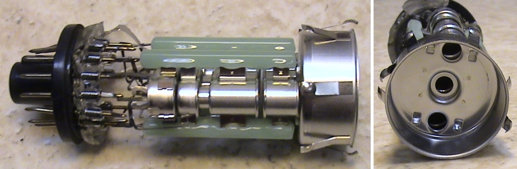 Electron gun (side and front view), built out of a tv